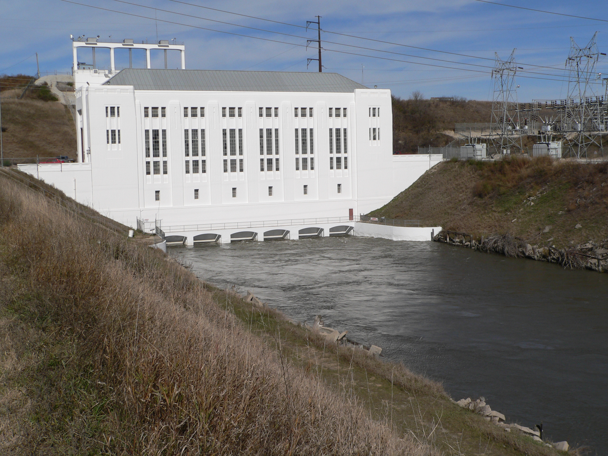 Powerhouse and tailrace canal at hydroelectric plant on the Loup Canal near Columbus, Nebraska.